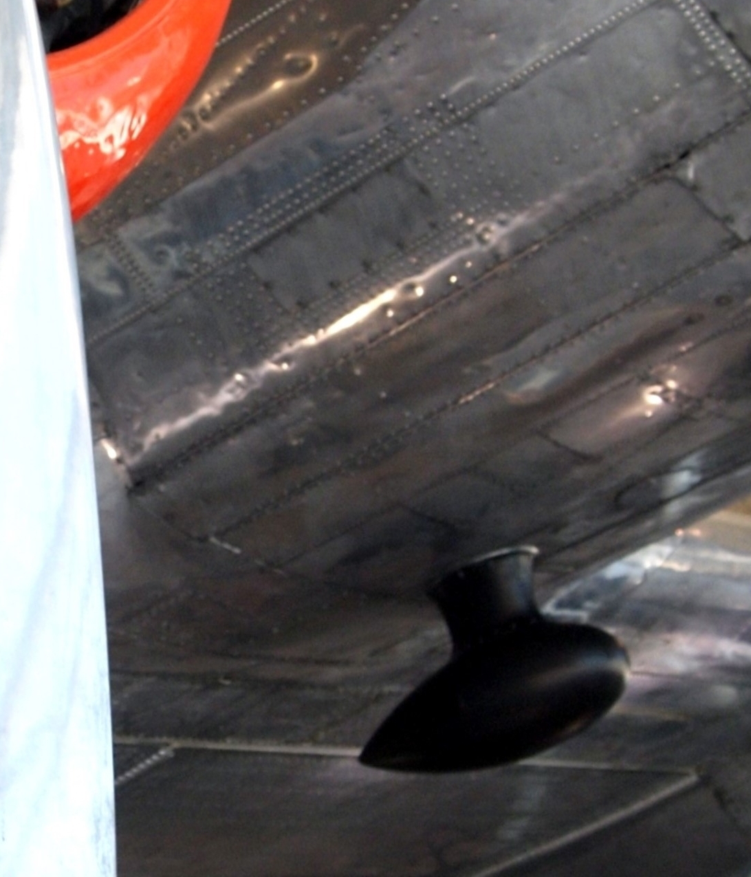 LP-21 loop antenna attached to the underside of Douglas DC-3 "Flagship Knoxville" used for automatic radio compass. The rotatable loop antenna is encased in a teardrop-shaped housing.